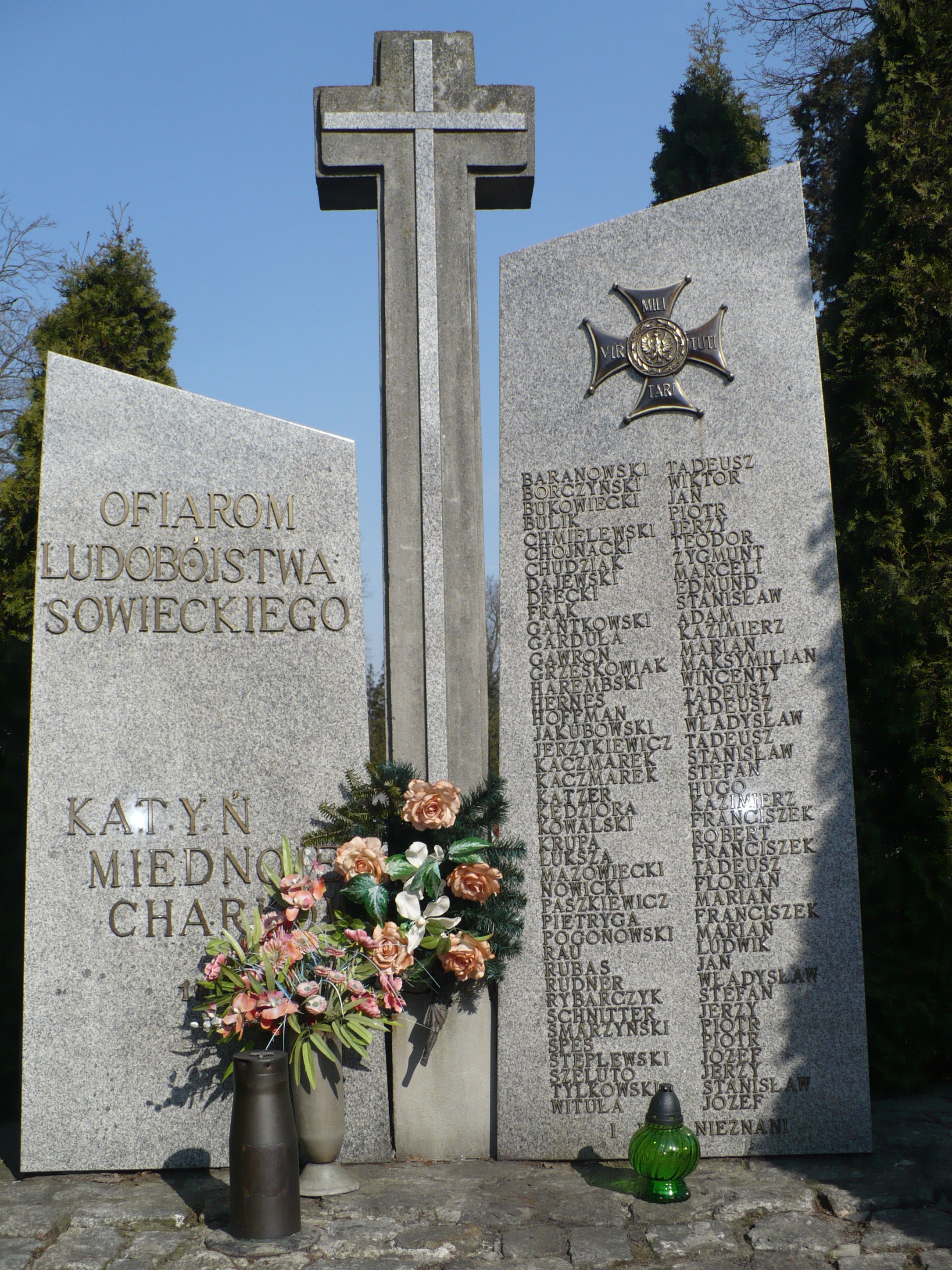 Monument of Katyń in tha Fara's cemetery in Września